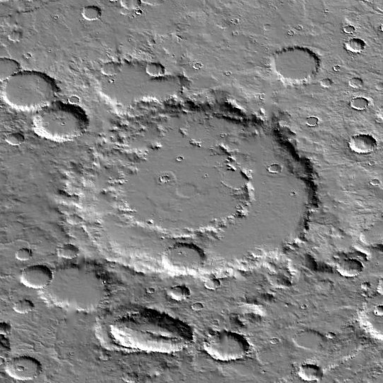 Kepler crater on Mars. MOLA shaded relief map, equidistant cylinder projection. Approx. 500 km N to S.